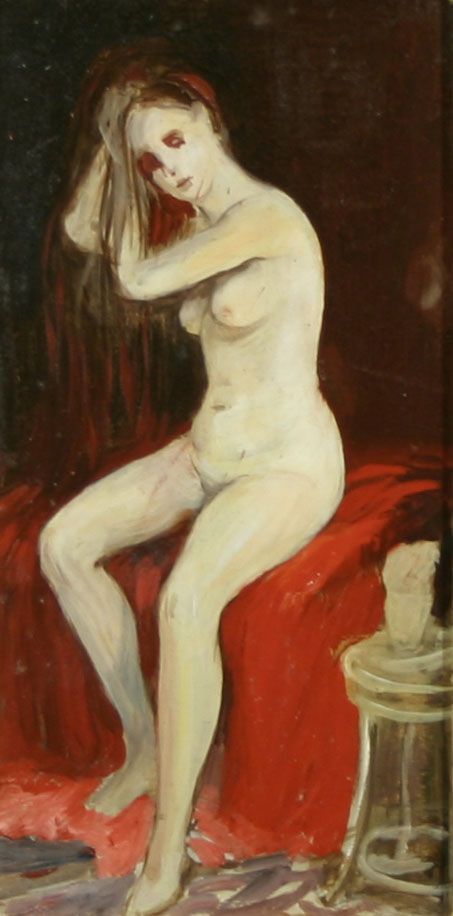 Possibly Mercedes Luks